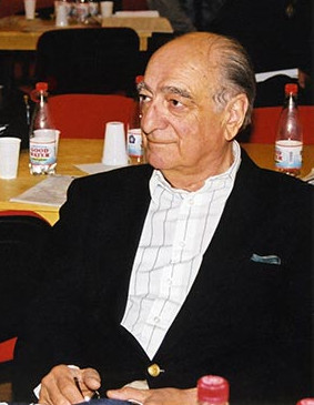 Myron Tribus on Baťa's conference.